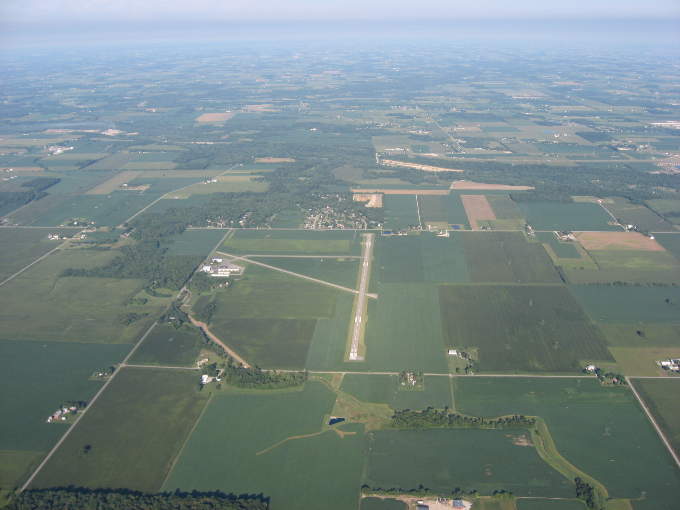 Aerial view of the Sidney Municipal Airport in north central Orange Township, Shelby County, Ohio, United States, south of the city of Sidney. Picture taken from a Diamond Eclipse light airplane at an altitude of 4,550 feet MSL and a bearing of approximately 275º.